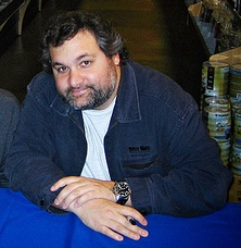 Artie Lange at a FYE in Glendale, California